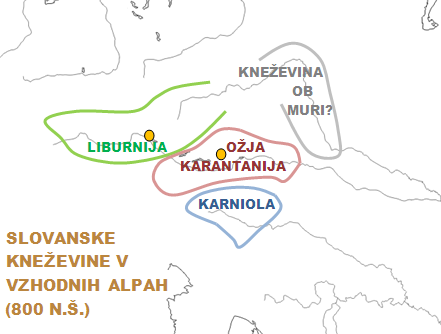 The map of hypothecal principalities in the Eastern Alps is based especially on the similar map Slovanske kneževine v vzhodnih Alpah okrog 800, page 522 (Pleterski ,Andrej (1996). Mitska stvarnost knežjih kamnov. From: Zgodovinski časopis. Letnik 50/4, pages 481-534), but with some reservations for the northeren demarcation of hypothetical principalities. The north-eastern borders of hypotetical Liburnia should be found somewhere east from Ingering (Ad Undrimas) and hypothetical eastern principality could be connected with the ethnonym of Croats- compare the borders of that principality with the eastern settlements containing croat ethnonym, which are shown on the map Zemljevid »Hrvaška« krajevna imena, page 186 ( Grafenauer, Bogo (1996). Karantanija: Izbrane razprave in članki. Ljubljana, Slovenska matica.) For location of Ad Undrimas could be found on the map Zaris salzburških misijonov med Slovenci v Karantaniji in Panoniji (Habijan, Vlado (1997). Mejniki slovenske zgodovine. Ljubljana, Društvo 2000. Page 37.)The hypothesis of slovenian historian Pleterski is seen as highly questionable by slovenian historians Štih Peter and Grdina Igor. The core problem is claimed to be the wrong reading of medieval text Conversio Bagoariorum et Carantanorum, where the settlement or landscape of Liburnia is seen as the location not lying in Carantania. According to Štih the correct reading shows that Liburnia and Ad Undrimas were parts of principality of Carantania (Štih, Peter (1997): O vojvodskem stolu in Liburniji ter o metodi in znanstveni korektnosti neke razprave. Page 114-115. From: Zgodovinski časopis. Letnik 51/1, pages 110-120).